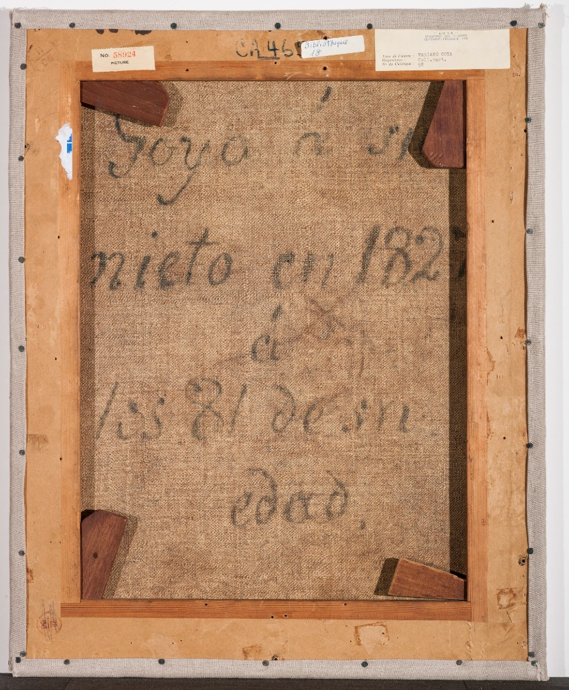 Portrait of the artist's grandson Mariano Goya wearing a black coat and black stock. Inscribed by the artist on the reverse: Goya á su/ nieto en 1827/ á/ los 81 de su/ edad [Goya, to his grandson, at 81 years old]